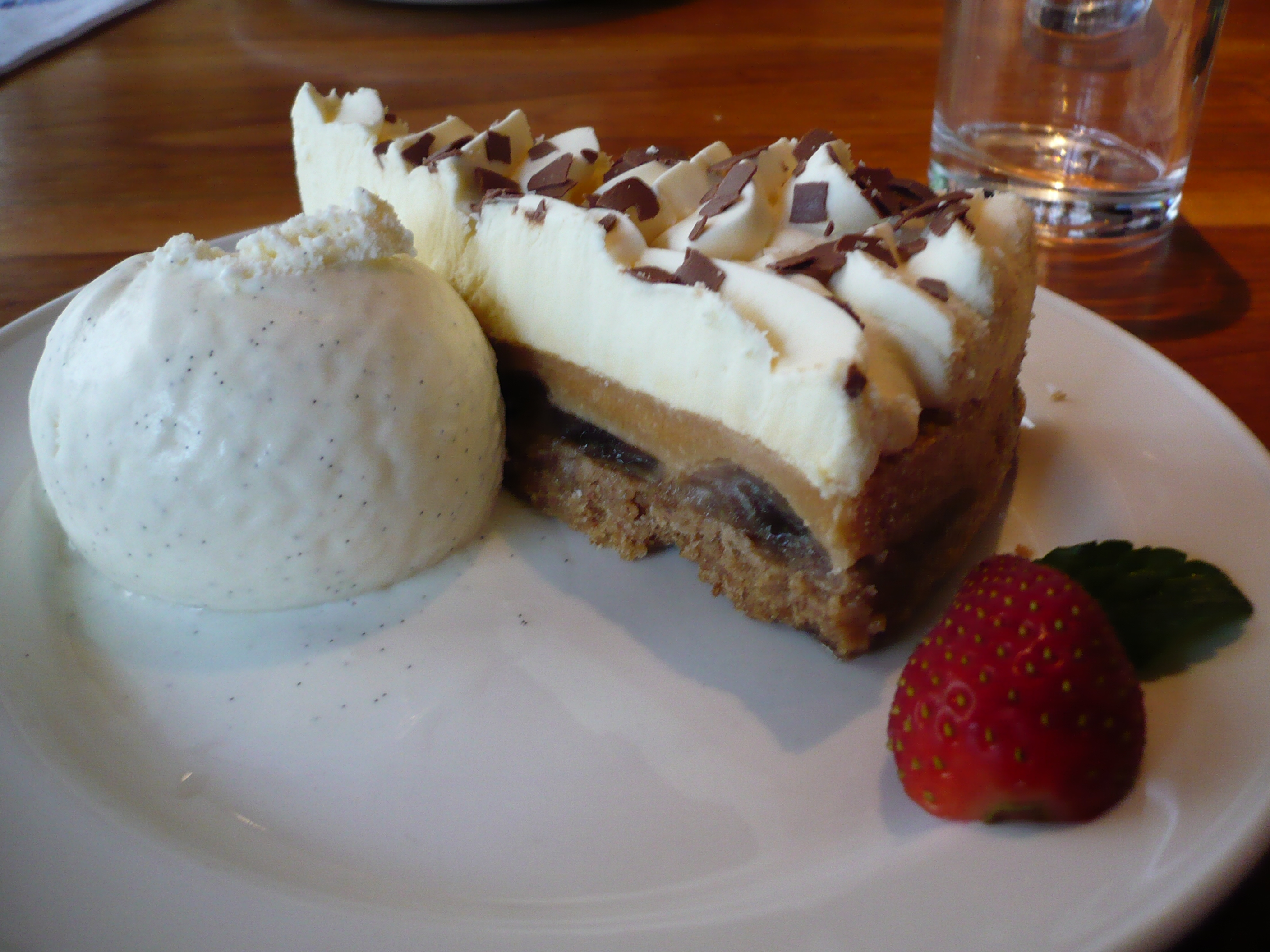 Slice of banoffee pie with vanilla ice cream and strawberries. We had a flat Christmas lunch. 4 out of the 6 of us came. It was nice.